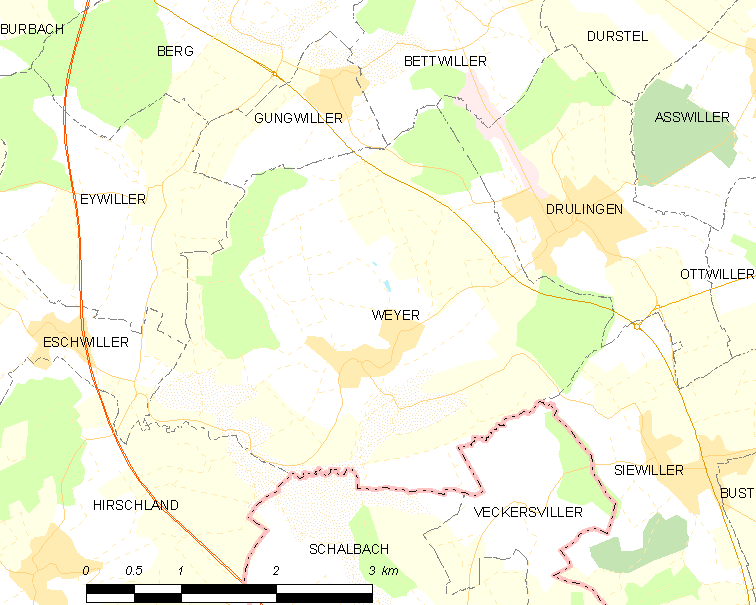 Map of French municipality